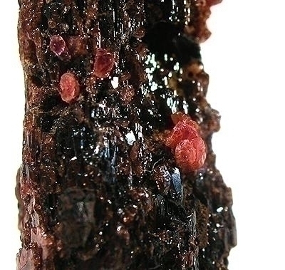 Painite Locality: Ohngaing (Ohn Gaing; Ohn Kai), Mogok, Sagaing District, Mandalay Division, Burma (Myanmar) (Locality at ) Size: 2.8 x 1.1 x 0.6 cm. A large painite crystal with associated small, bright red ruby crystals.